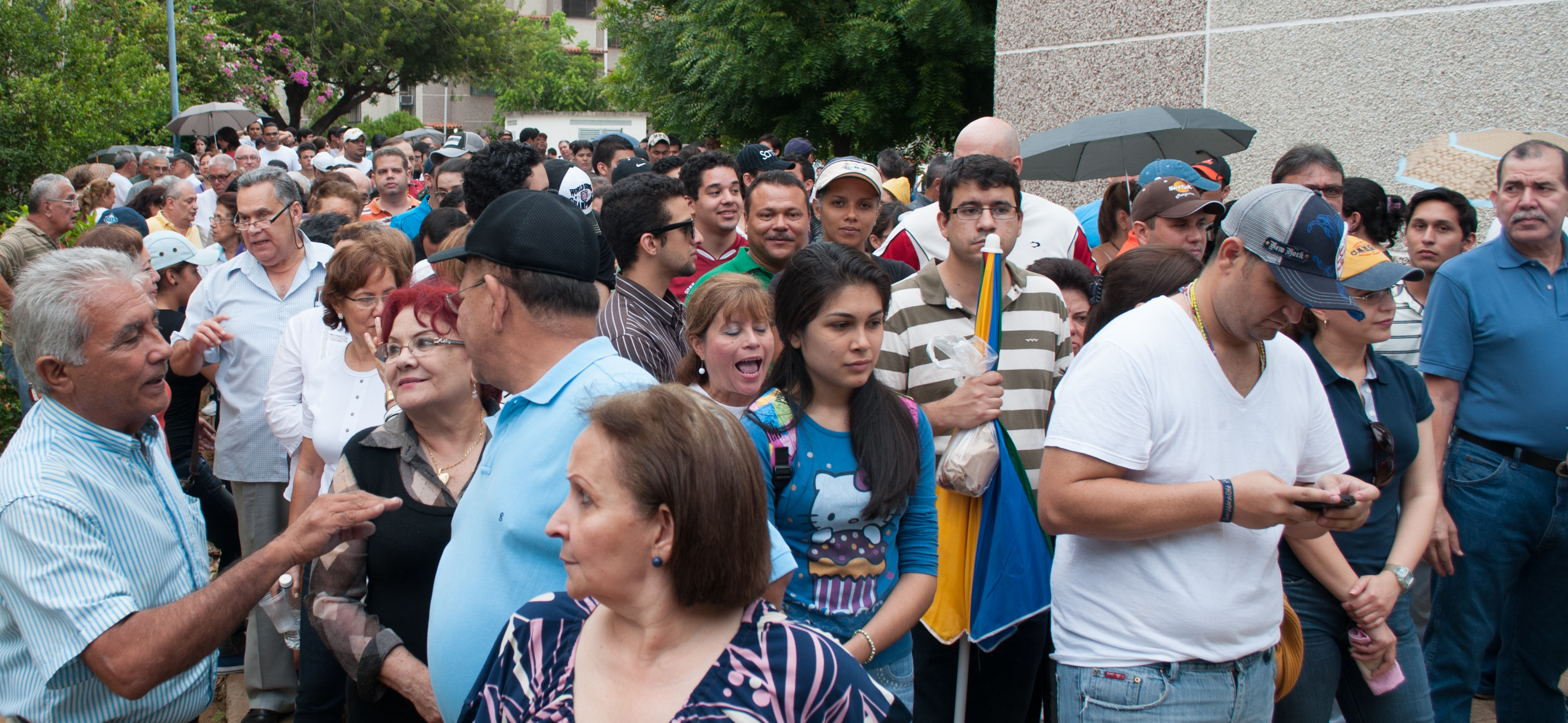 Queues to enter the polling stations on the polling Kindergarten Loma Linda Maracaibo, in Venezuela's presidential election of 2012. There is a particular queue for the elderly people, pregnant women and doctors (left).